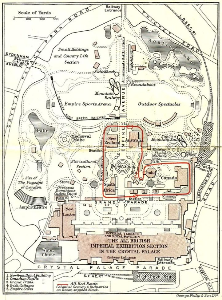 Festival of Empire Map 1911. At the Crystal Palace in South London.